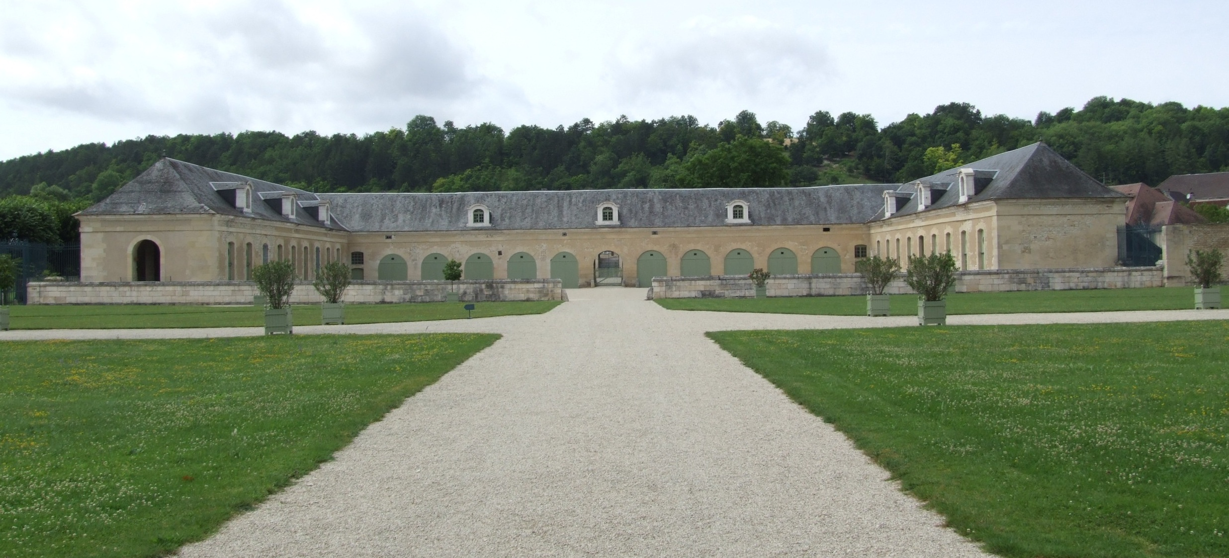 Ancy-le-Franc castle, Burgundy, FRANCE.